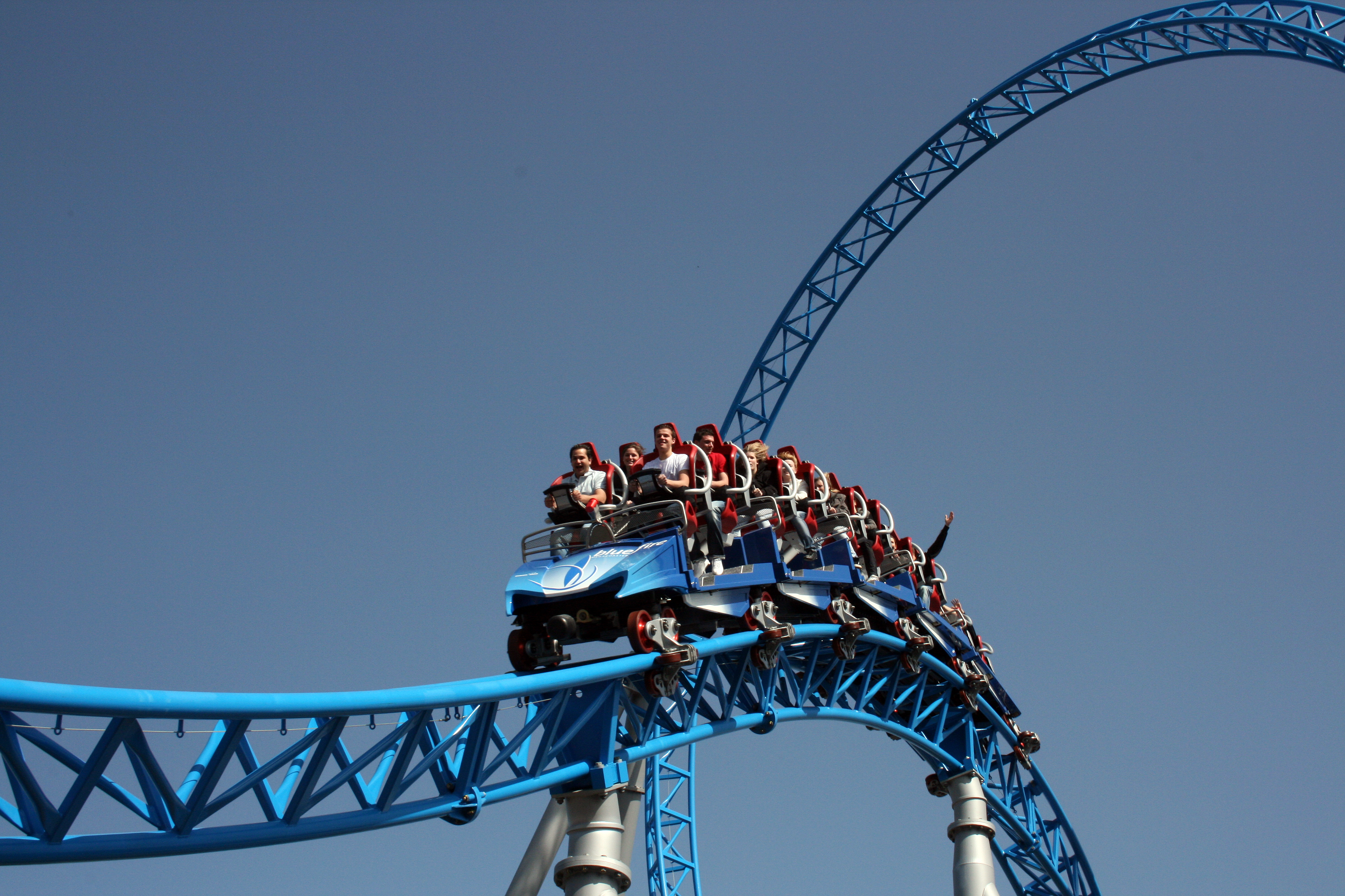 Train of roller coaster Blue Fire at Europa-Park